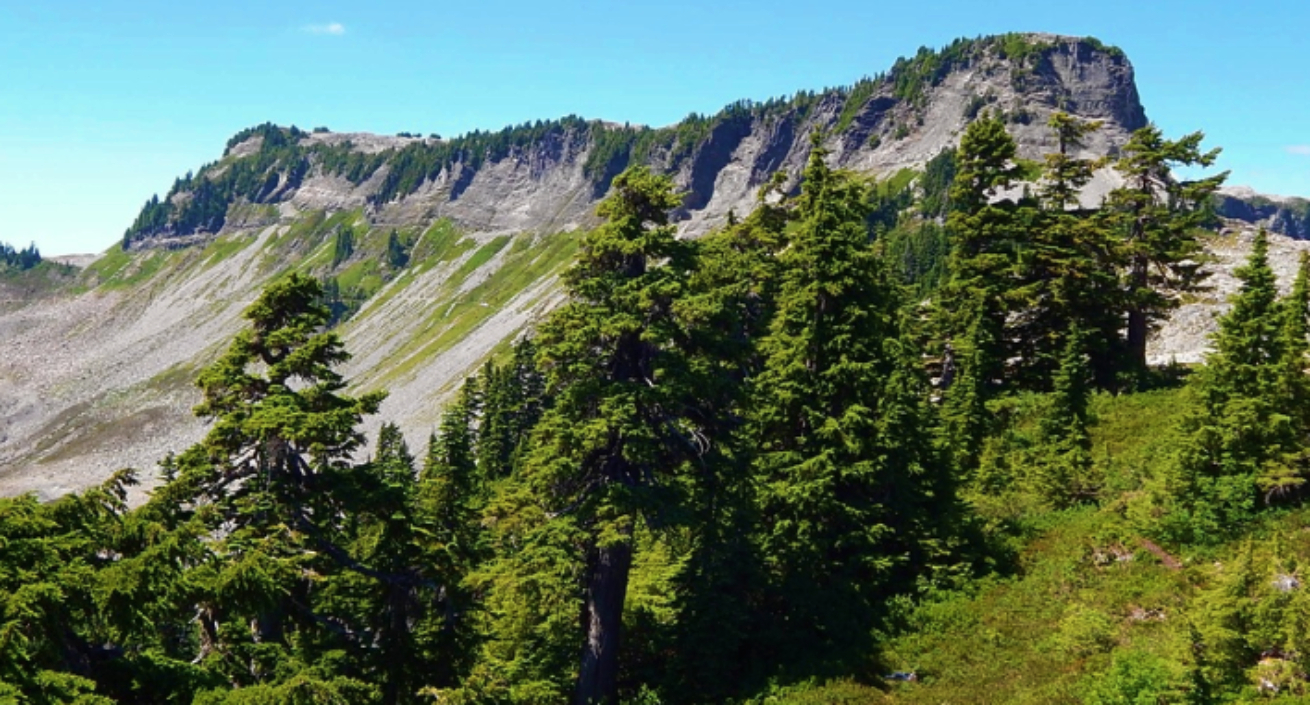 Table Mountain from Artist Point area. Washington state